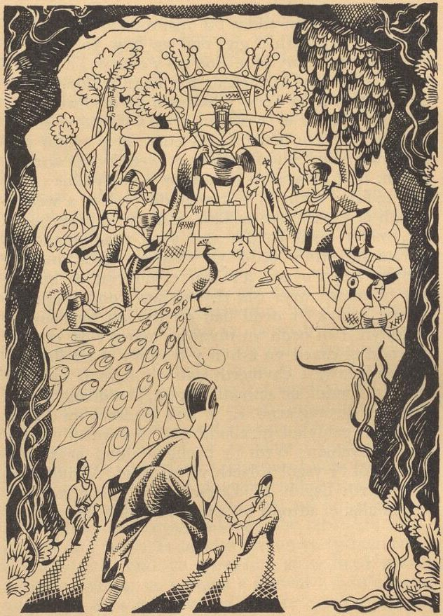 Illustrations of the Tylwyth Teg (Welsh Fairy like creatures) from the book 'Y Tylwyth Teg'